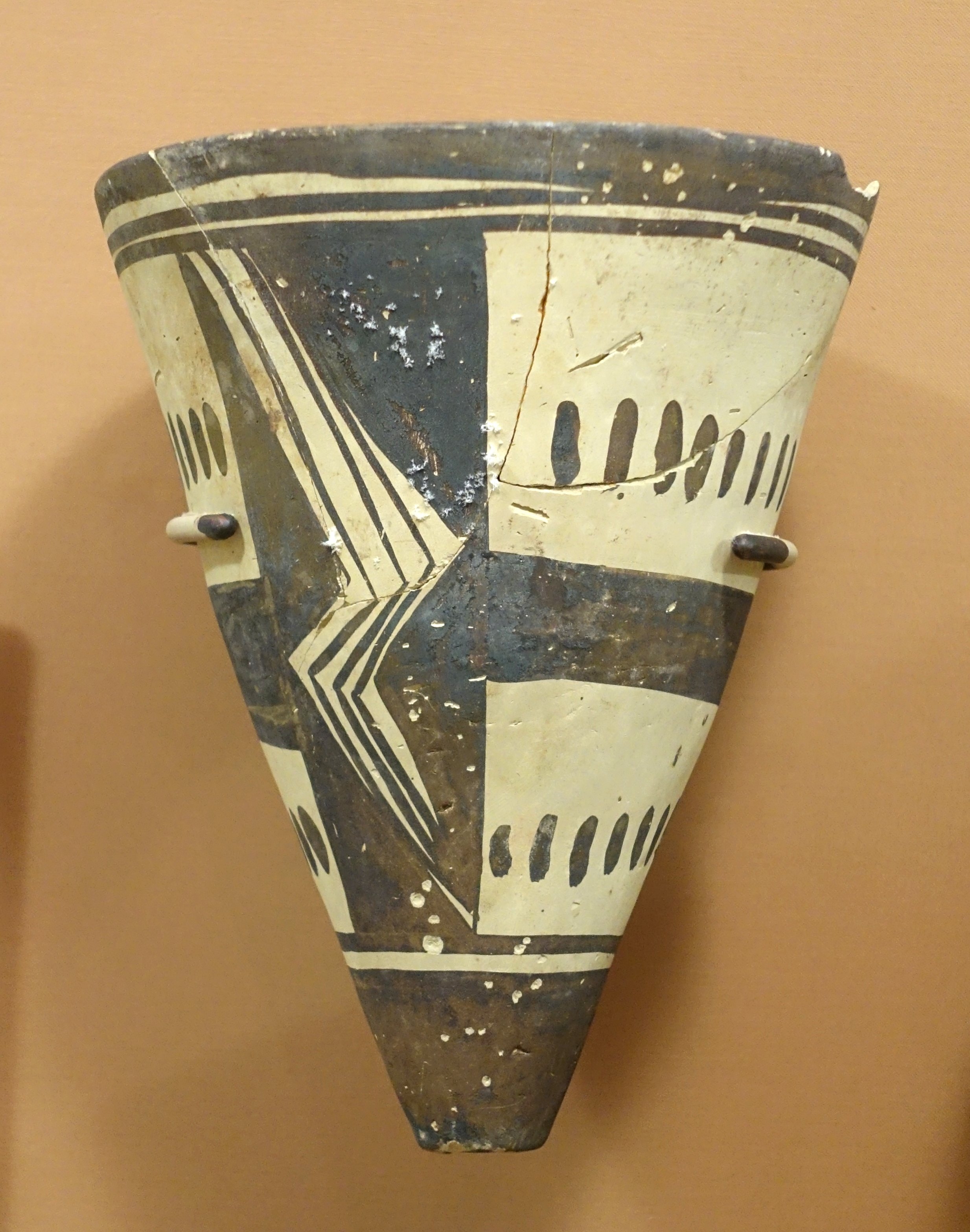 Exhibit in the Oriental Institute Museum, University of Chicago, Chicago, Illinois, USA. This work is old enough so that it is in the public domain.